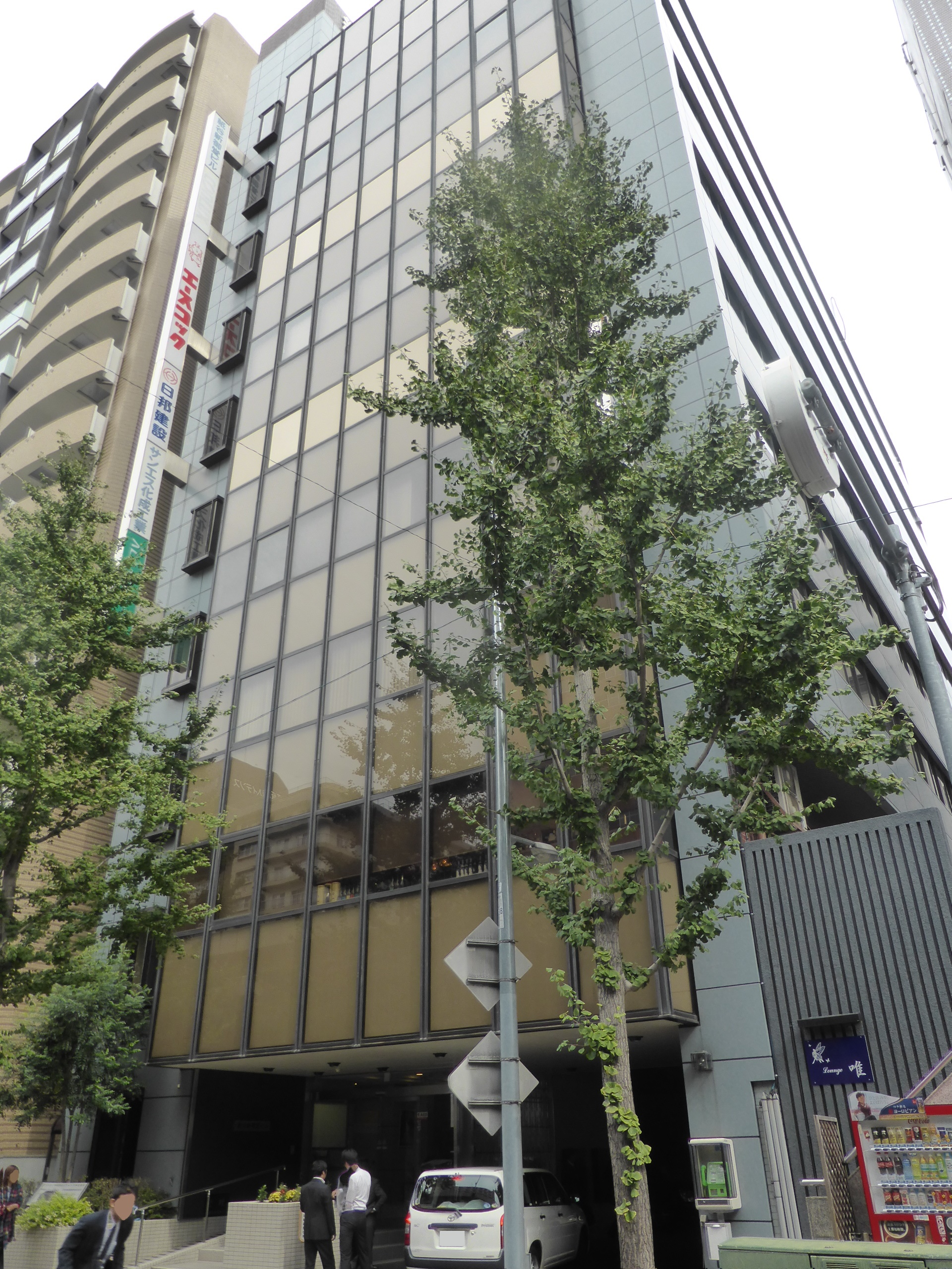 I,the copyright holder,abandon all rights concerning this image.